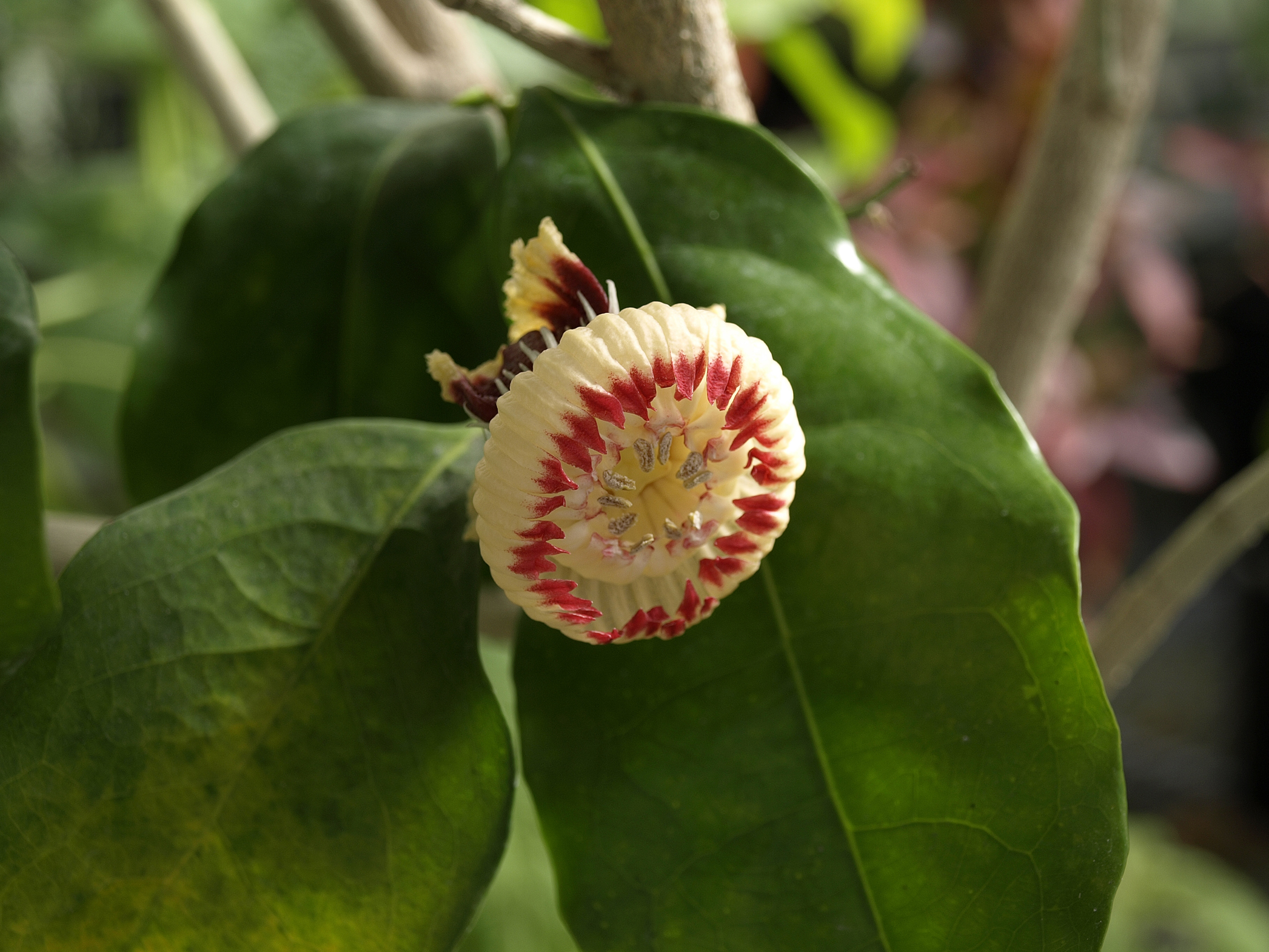 Biology Dept. greenhouse, Florida International University, Miami, Florida, USA.